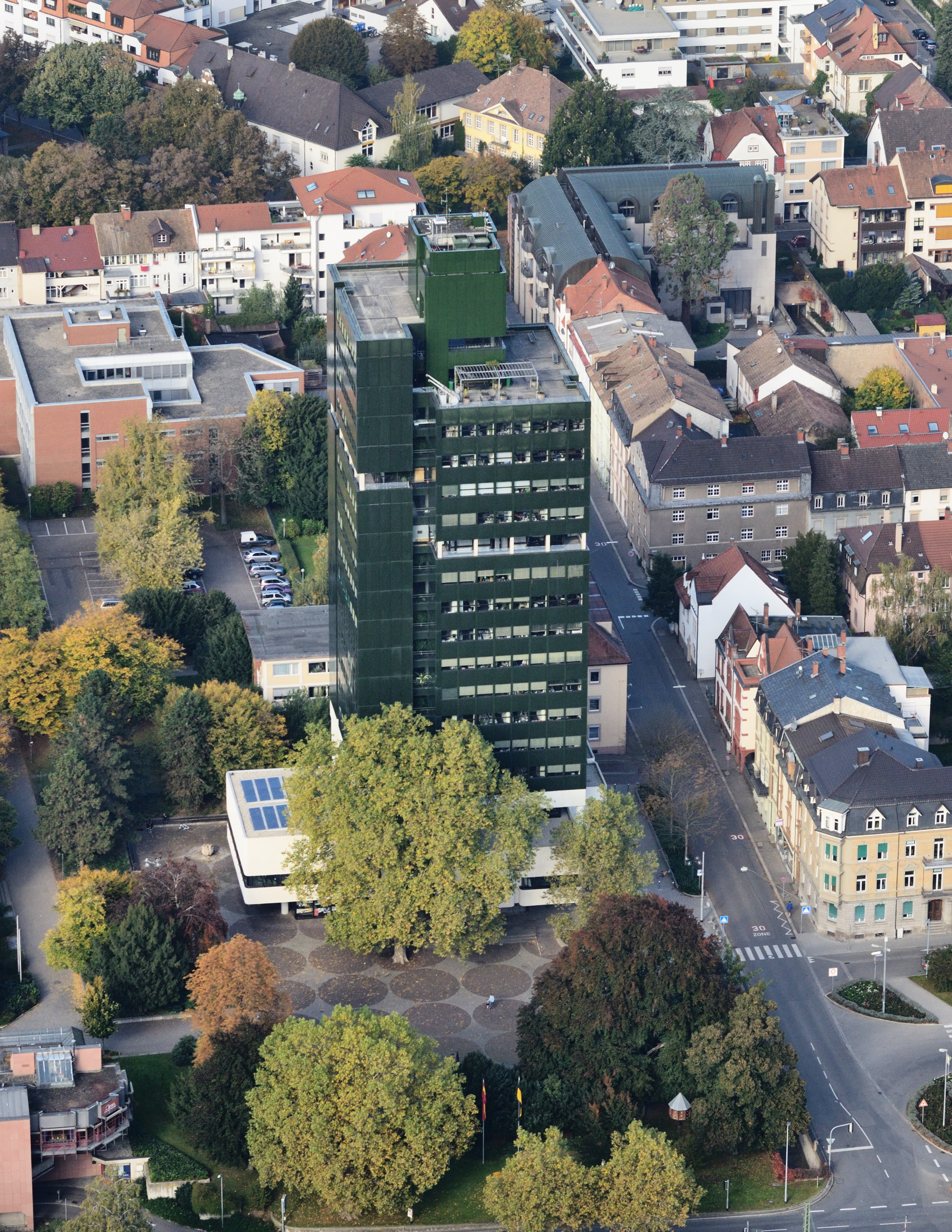 Aerial view of town hall in Lörrach